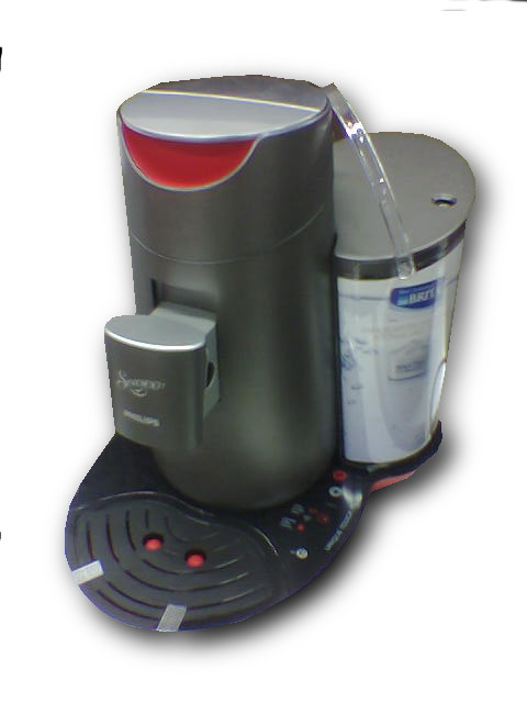 Philips Senseo Twist HD7874.